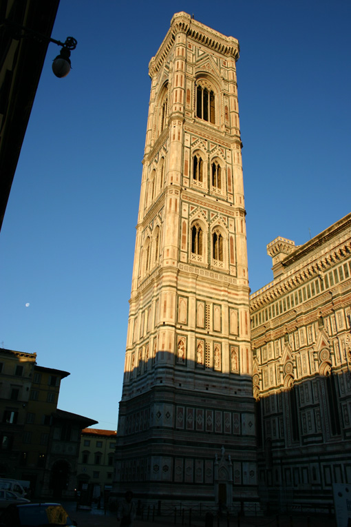 Giotto Tower in Florence.